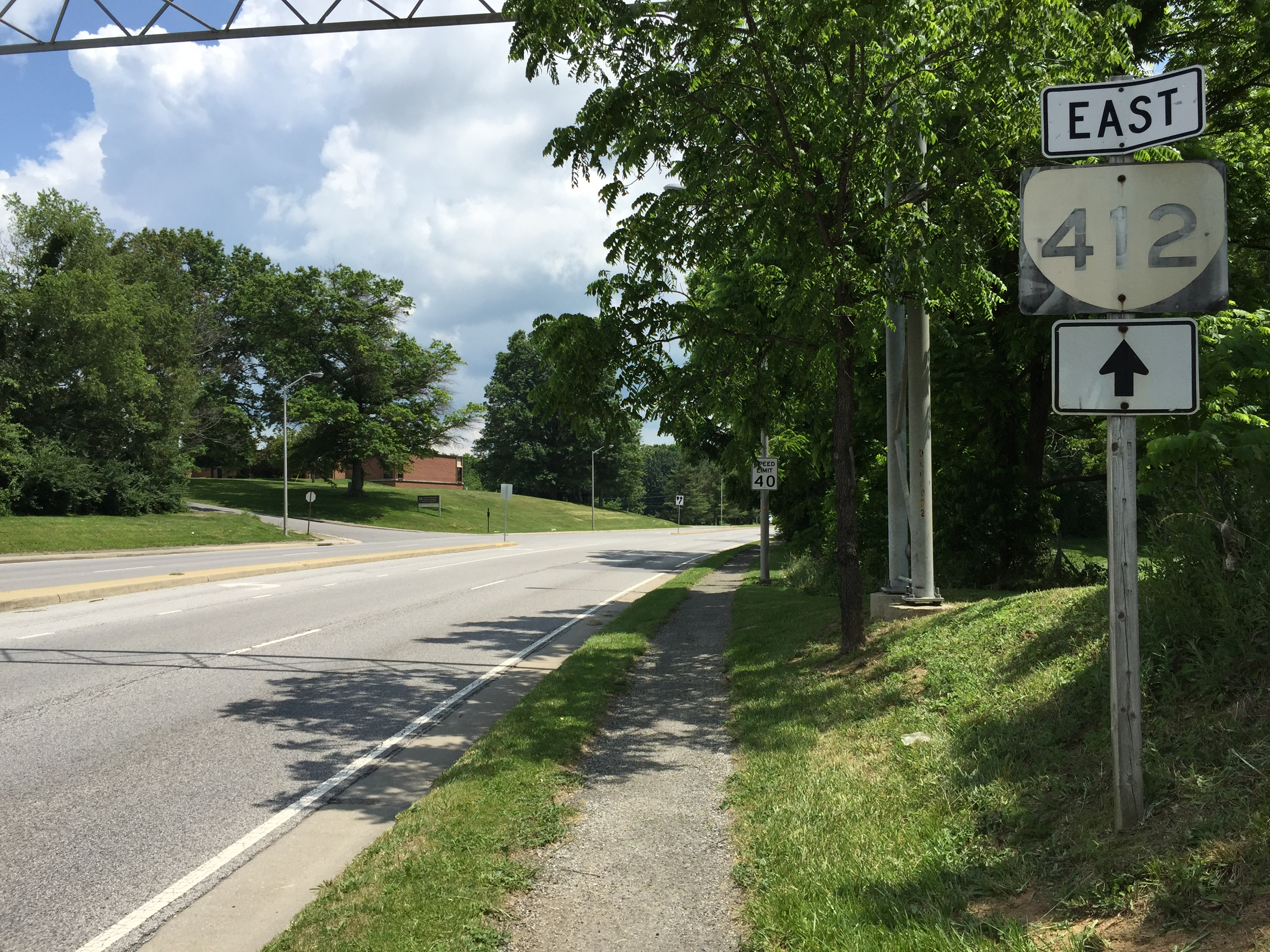 View east along Virginia State Route 412 (Prices Fork Road) just east of U.S. Route 460 in Blacksburg, Montgomery County, Virginia